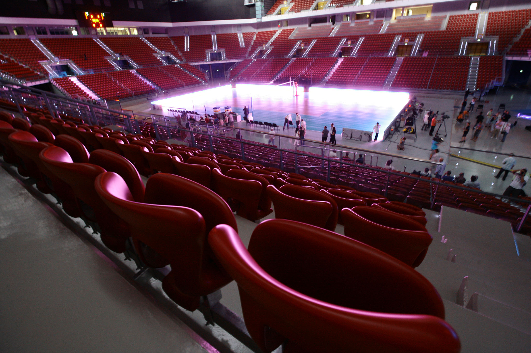 Арена Армеец интериор